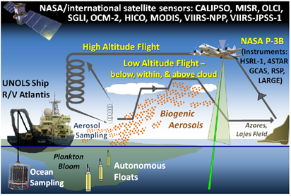 overview of NAAMES methods